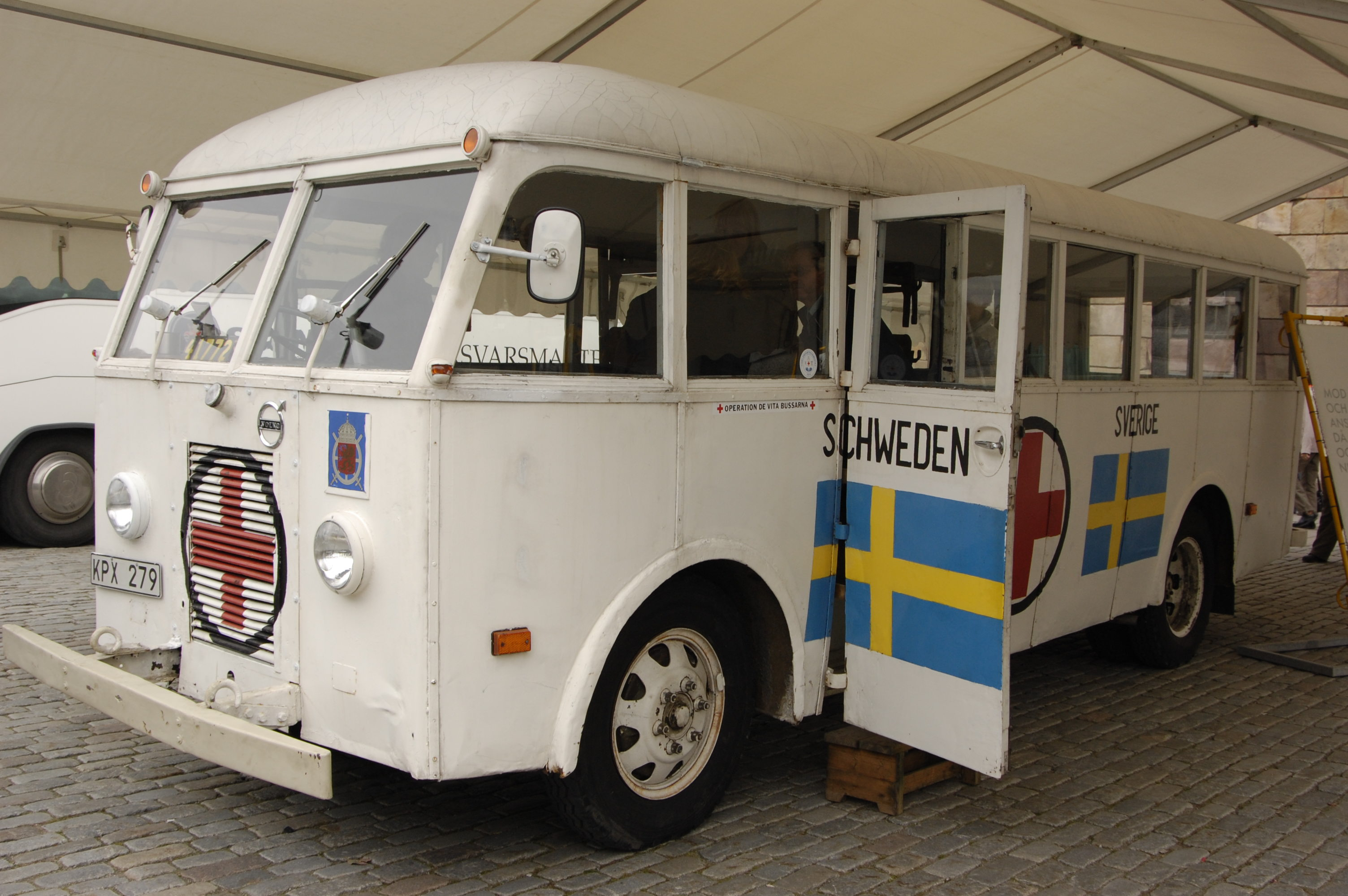 One of the original White Buses, kept driveable in original condition